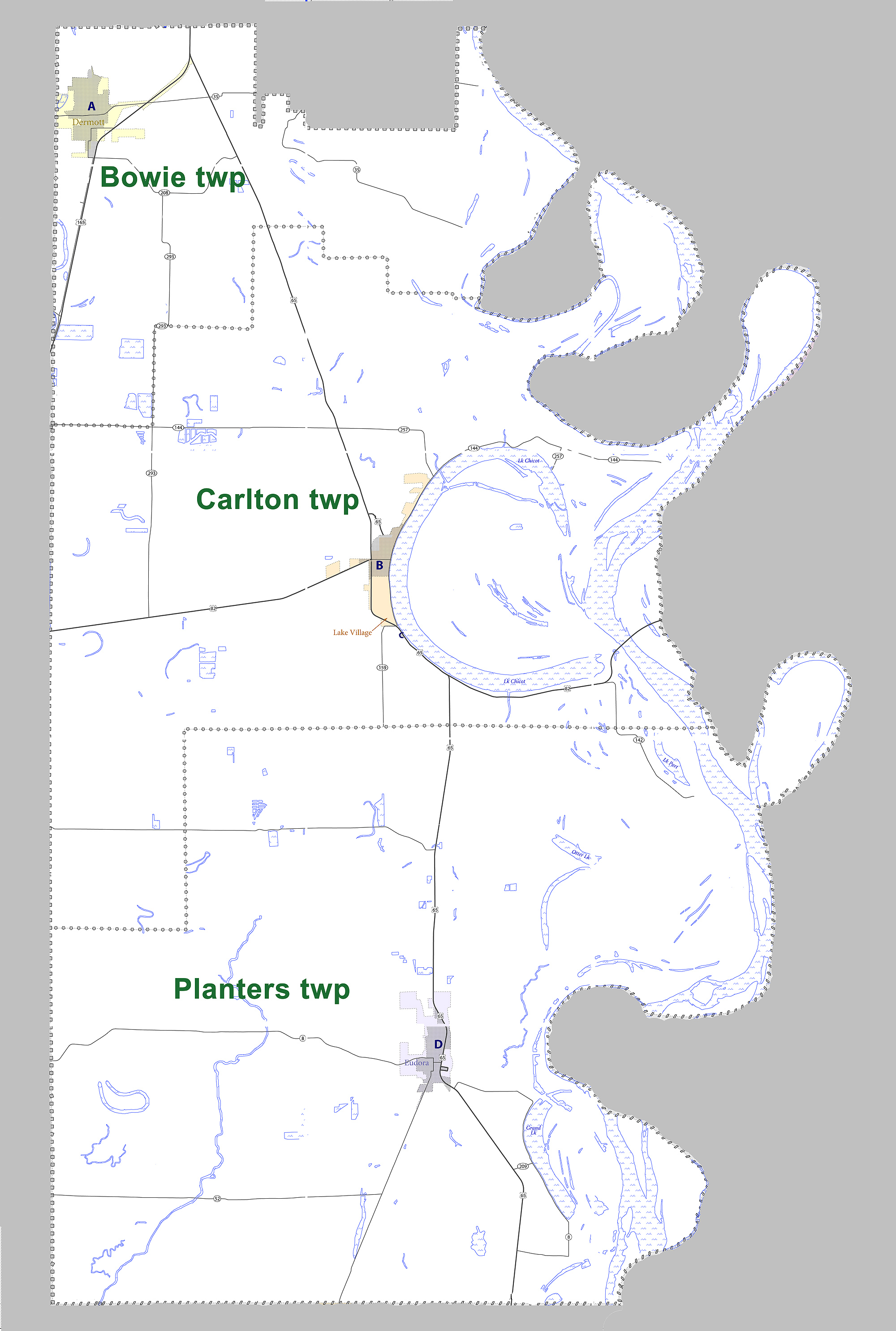 Large map showing townships in Chicot County, Arkansas. Modified from US census map (for 2010 census) for Chicot County, Arkansas